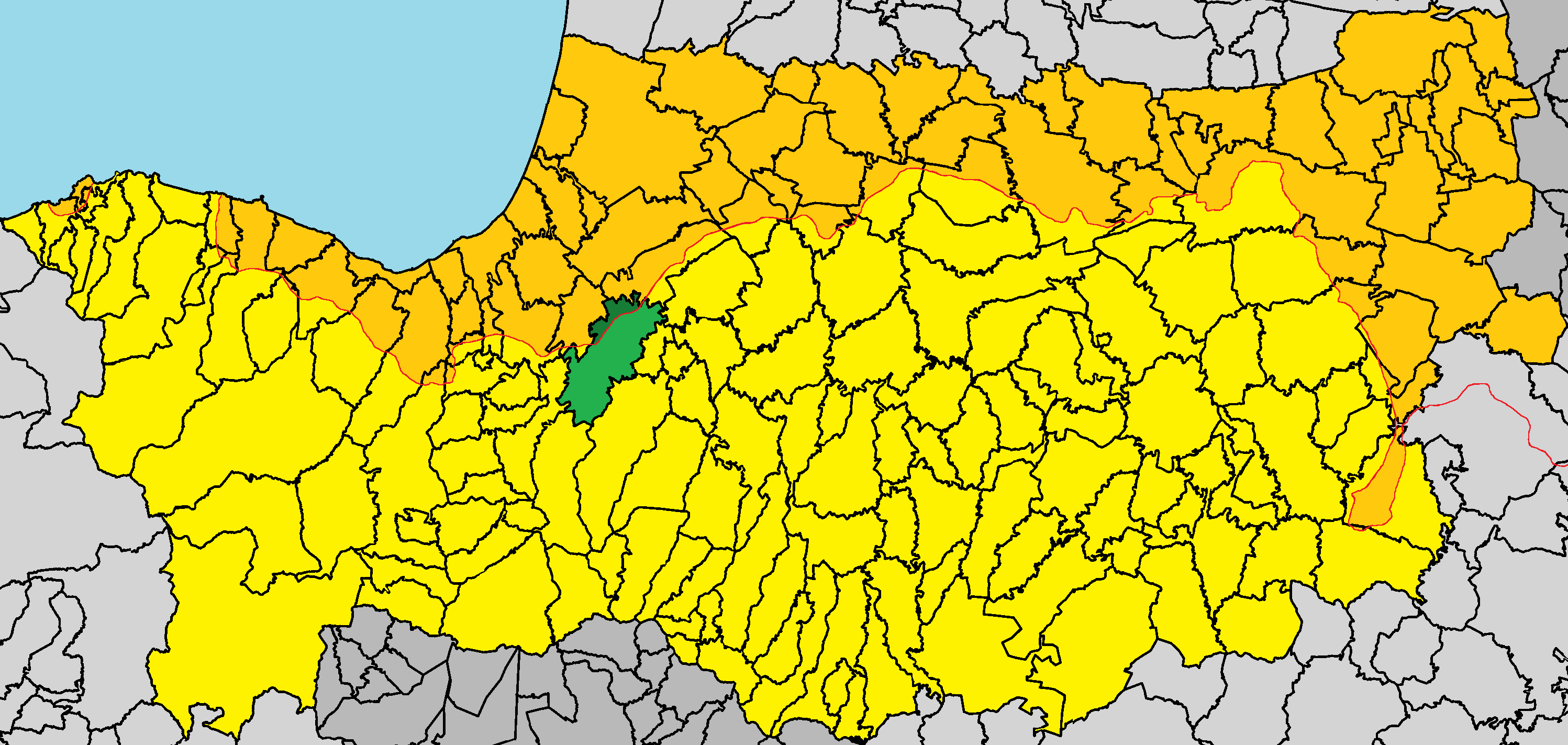 Kato Koutrafas in Nicosia District (de jure).